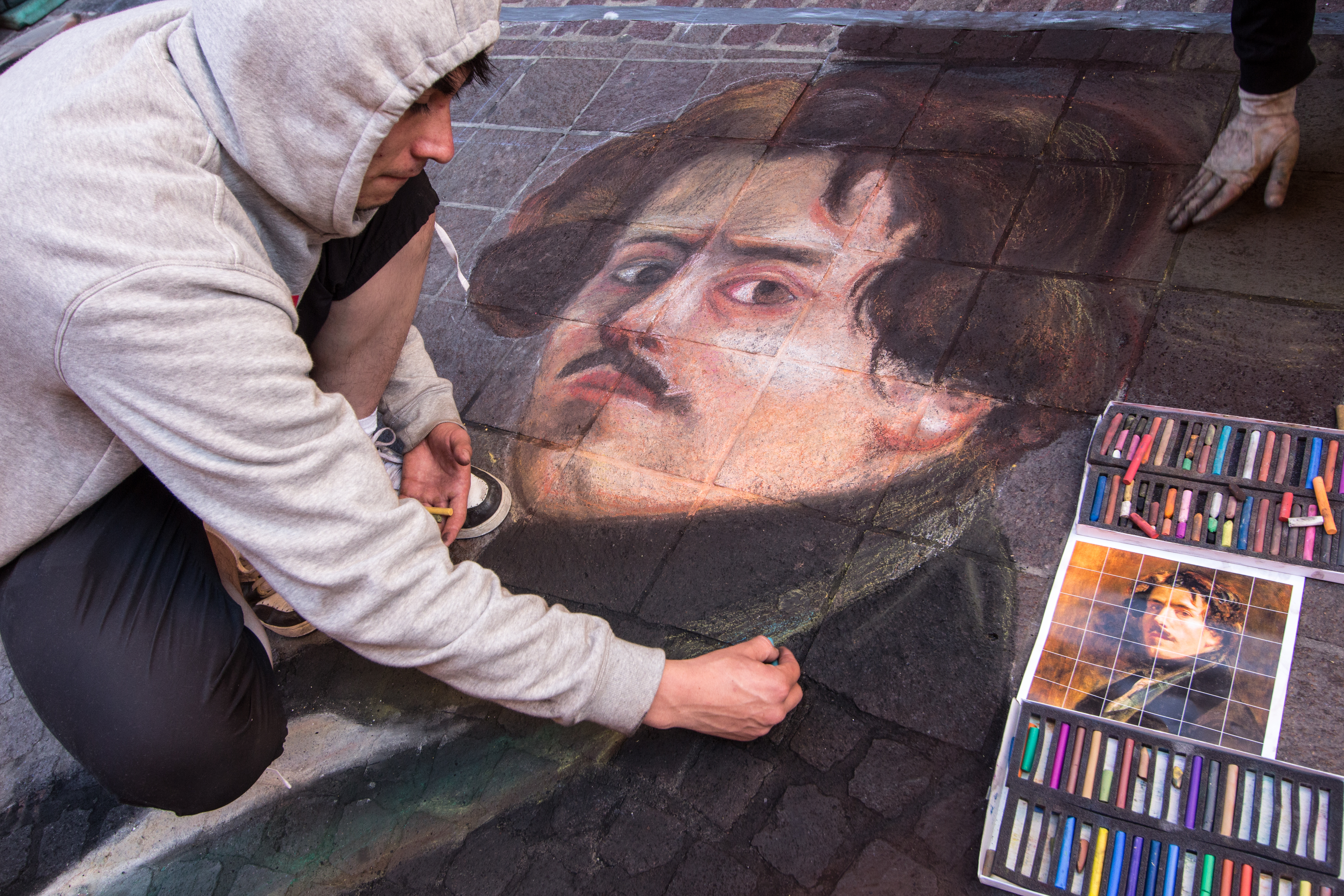 4th Madonnari festival (street painting) in Guanajuato, Mexico. Painting is a reproduction of Eugène Delacroix self portrait.